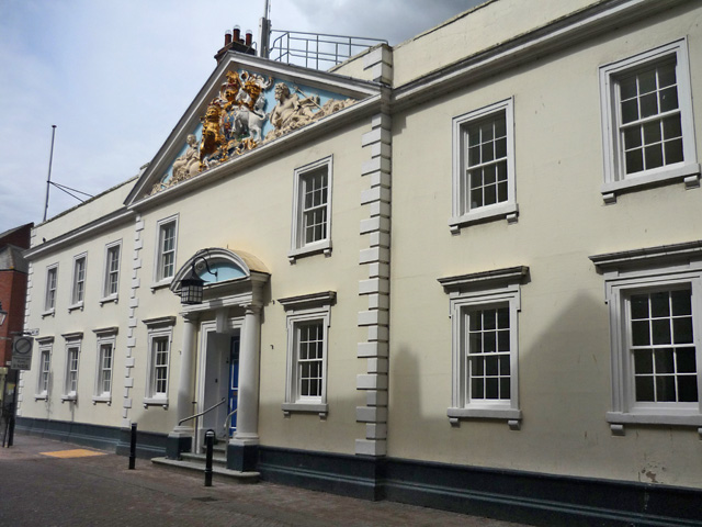 Trinity House, Hull Seen from Trinity House Lane, the building dates from 1753. Founded in 1369 as a religious guild, from the 16th century Trinity House became the authority in charge of navigation, pilotage and buoys on the Humber. It subsequently acquired much property in the city and became a strong influence on its government and expansion. Its nautical school opened in 1786.